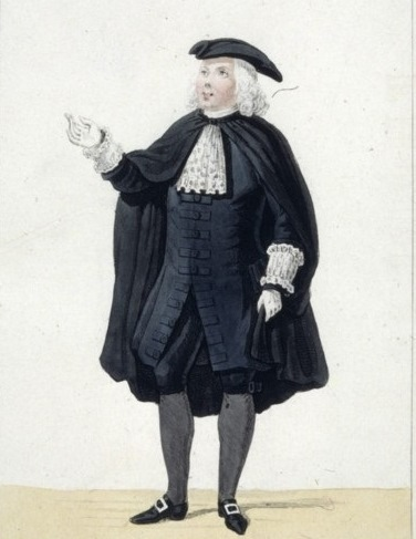 Henry Deshaynes (1785 – 1855) in costume as Sheriff Turner in Halévy's opera Le shérif for the premiere performance in 1839